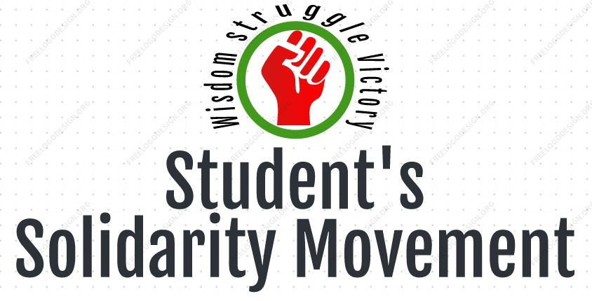 Student's Solidarity Movement Logo